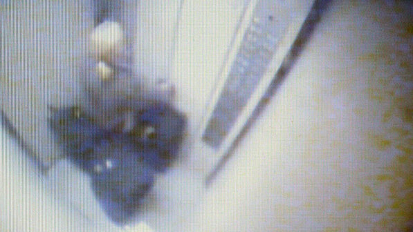 Imagens de câmera de segurança